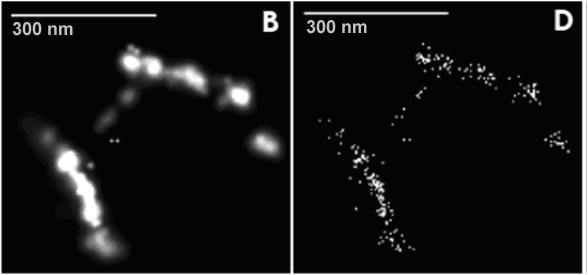 Localisation microscopy: SPDMphymod images of Tobacco mosaic virus (TMV) particles with coated proteins labeled with the fluorophore Atto448. B: after Gaussian blurring corresponding to the individual localization accuracy D: same data, but distribution of the individual molecule position without Gaussain blurring Virus Super Resolution Microscopy/Optical nanoscopy: A further example for the use of localization microscopy/SPDM is an analysis of Tobacco mosaic virus (TMV) particles. TMV particles are not only important in plant research but are also an example for a class of most promising biomolecule complexes exhibiting a high potential for nanotechnology applications as virus-derived biotemplates for nanostructured hybrid materials and building-blocks in analytical, technical & therapeutic applications. Collaboration of the Cremer & the Wege labs (Universities of Heidelberg & Stuttgart). Reference: Superresolution imaging of biological nanostructures by spectral precision distance microscopy (2011): Cremer, R. Kaufmann, M. Gunkel, S. Pres, Y. Weiland, P- Müller, T. Ruckelshausen, P. Lemmer, F. Geiger, S. Degenhard, C. Wege, N- A. W. Lemmermann, R. Holtappels, H. Strickfaden, M. Hausmann , Biotechnology 6: 1037–1051 See also [1] Prof. Christina Wege [2] Prof. Christoph Cremer